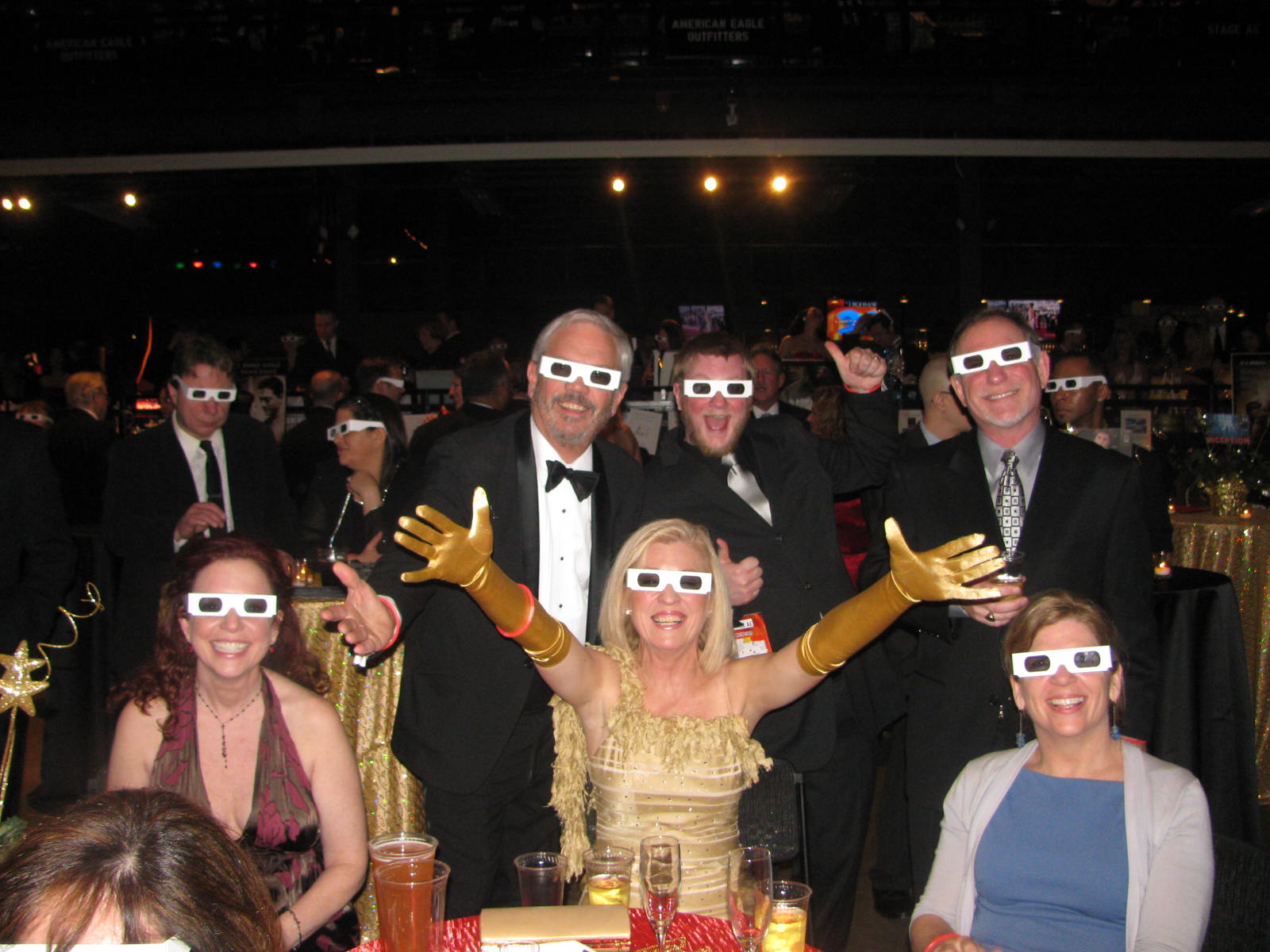 A picture of the audience at the Pittsburgh Film Office's 2011 event "Lights! Glamour! Action!" at Stage AE on the North Side.